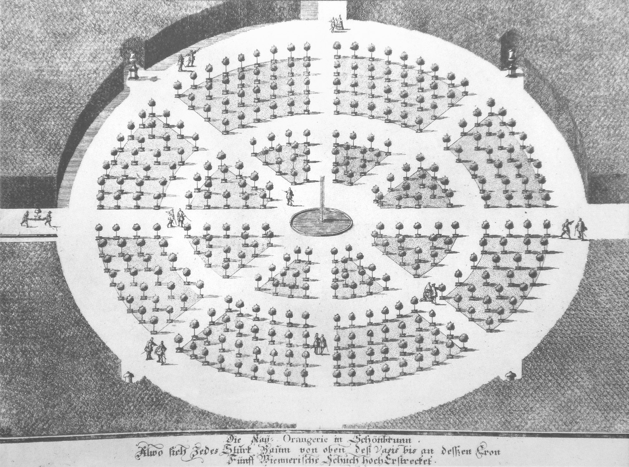 Schönbrunn Orangery early-to-mid 18th century.